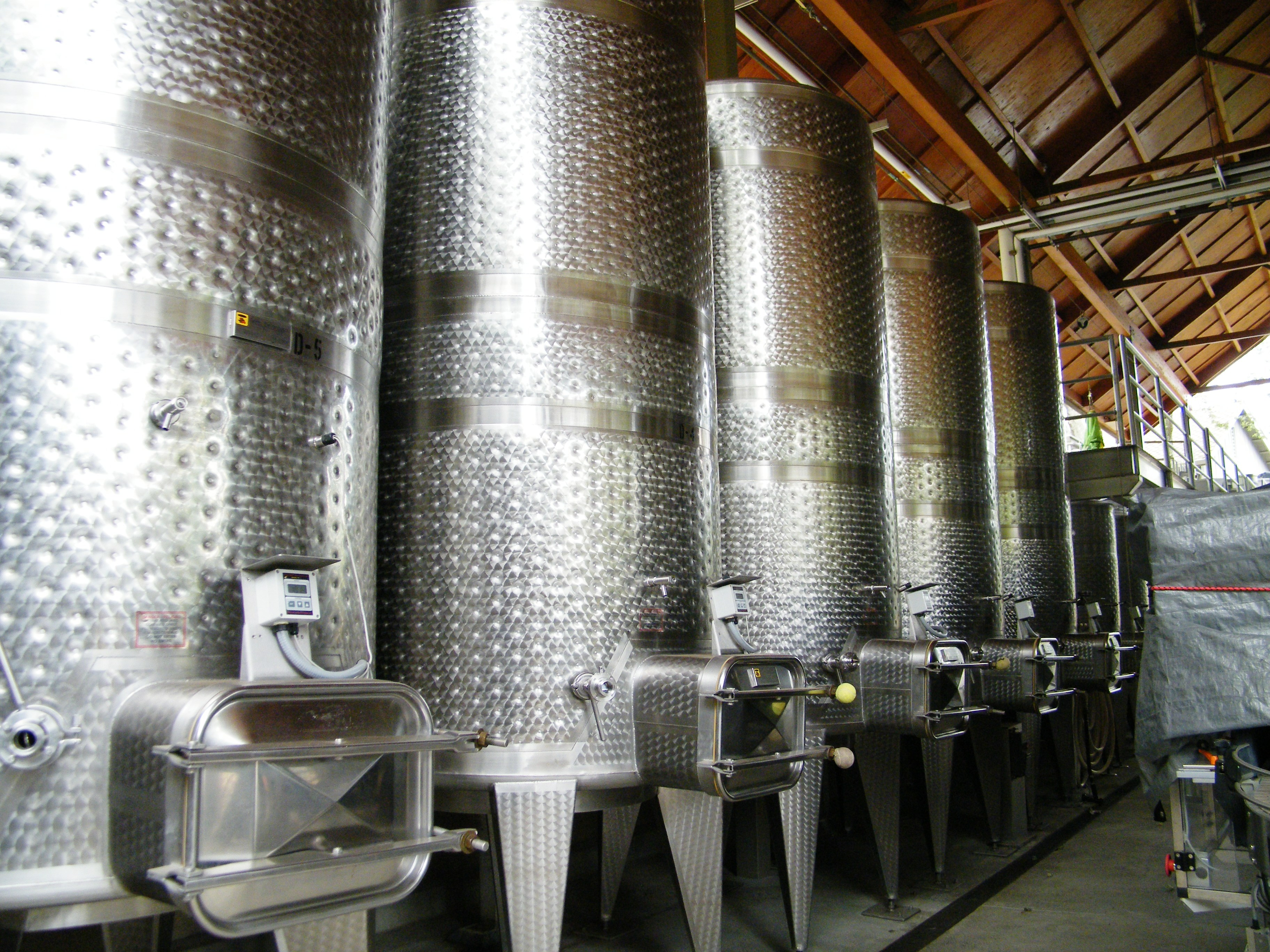 Stainless steel wine-making containers at Hanzell Vineyards, Sonoma, CA.